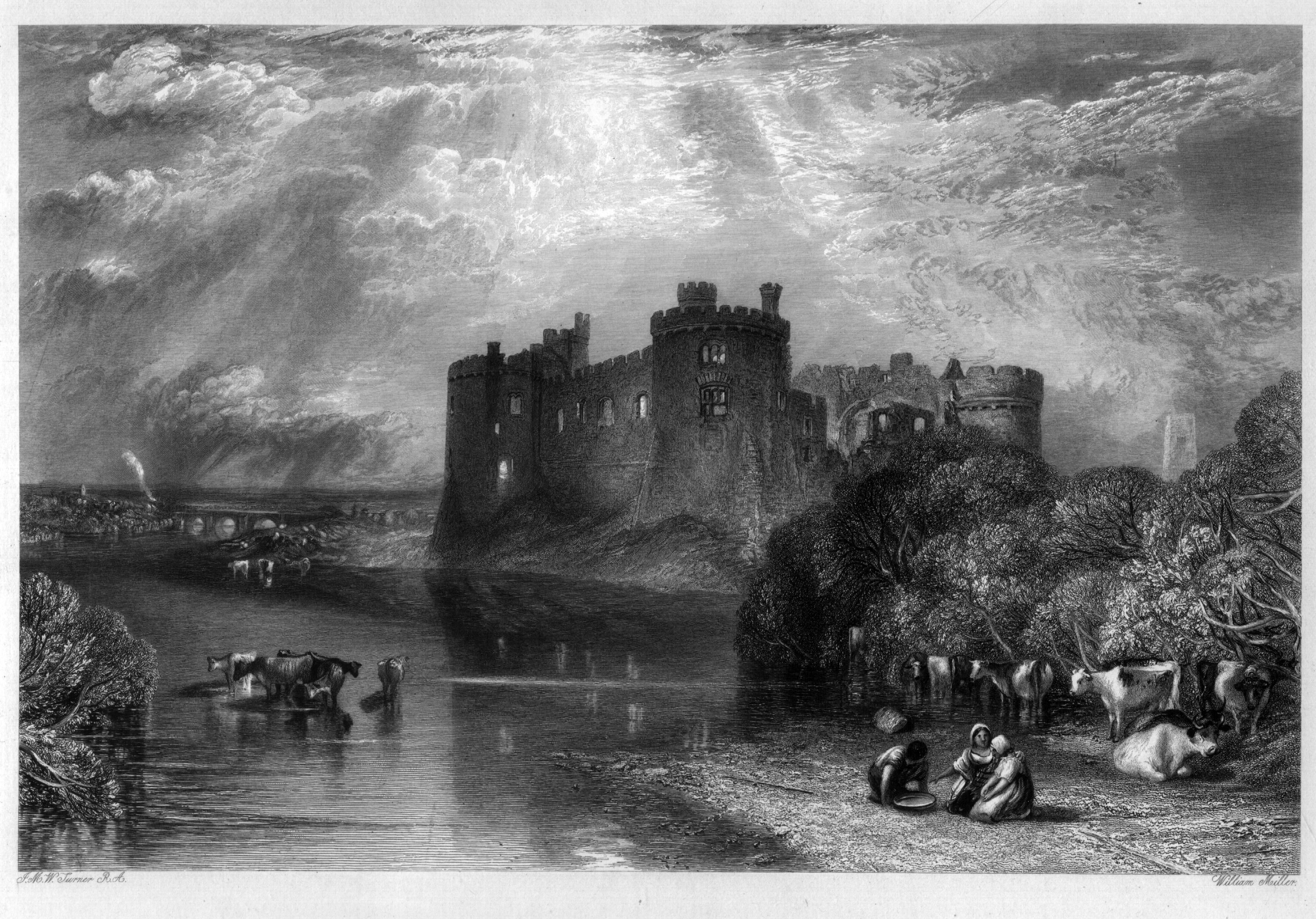 Carew Castle. engraving by William Miller after J M W Turner, published in Picturesque Views in England and Wales. From Drawings by J.M.W. Turner, engraved under the superintendence of Mr. Charles Heath with descriptive and historic illustrations by H.E. Lloyd. London: Longman, Orme, Brown, Green, and Longmans, 1838